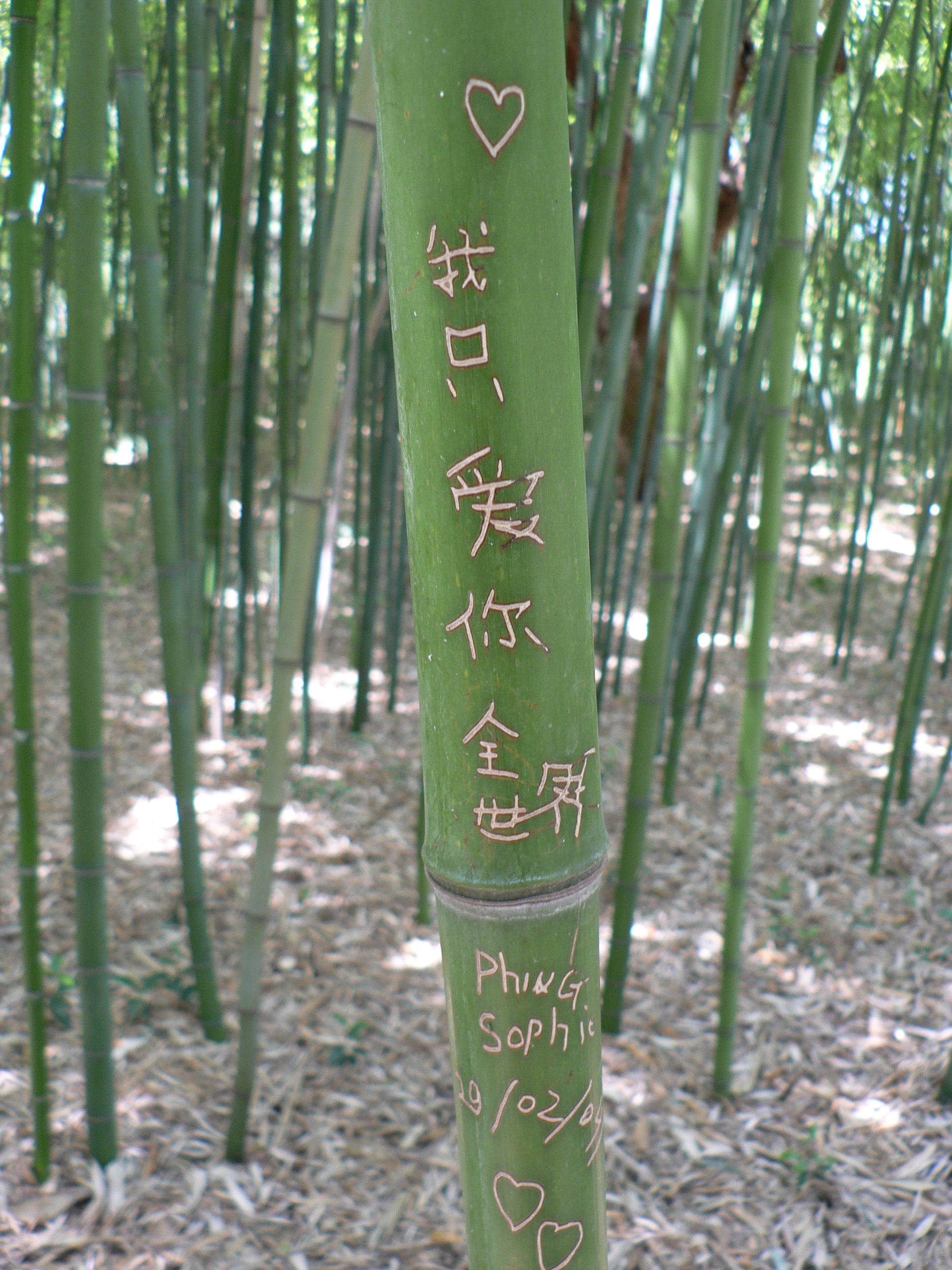 Bamboo stem with love engravings in Montpellier botanical garden.